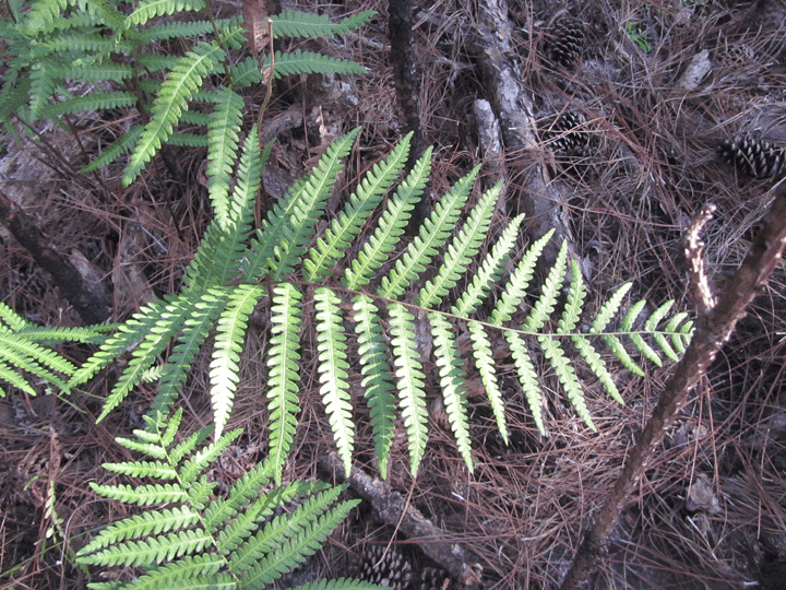 This cluster of Woodwardia virginica was found in Lake Kissimmee State Park in Florida.